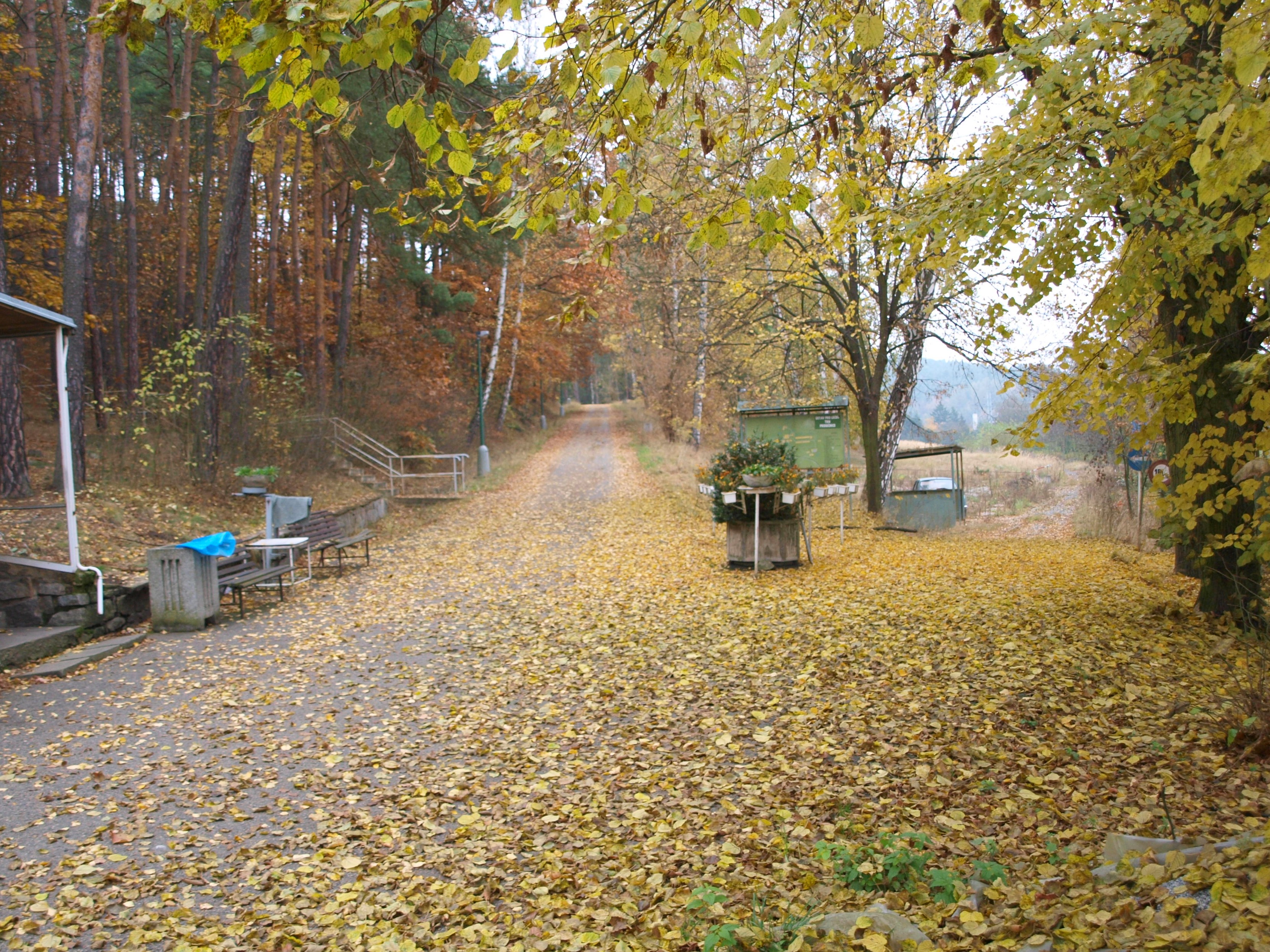 Sanatorium Humanita in Prosečnice, Central Bohemian Region